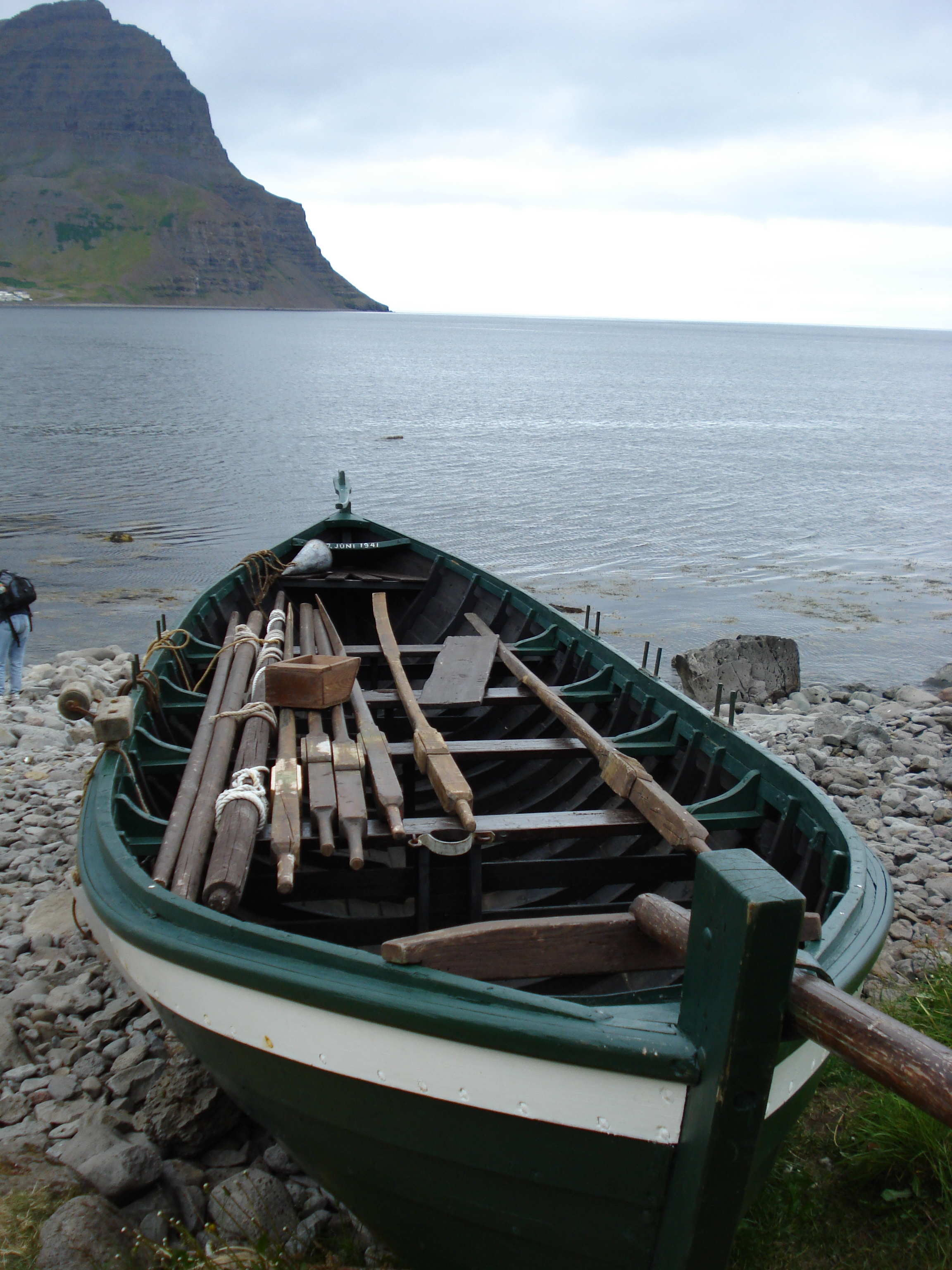 Traditional Fisherboat, Bolungavík, Iceland